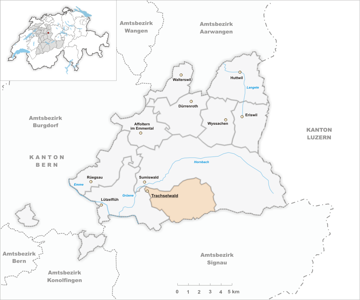 Municipality Trachselwald